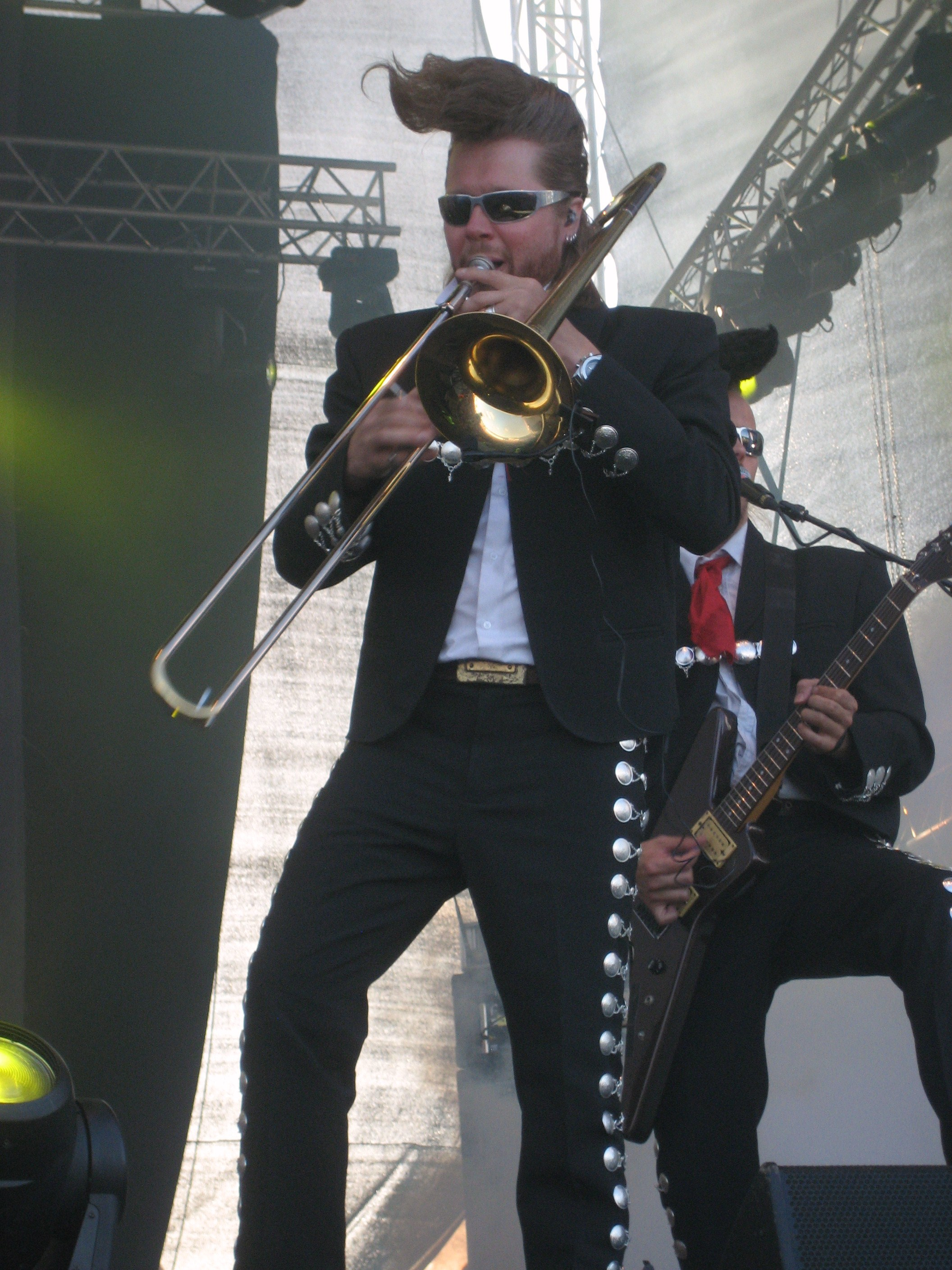 Leningrad Cowboys in Helsinki International Airshow 2009.